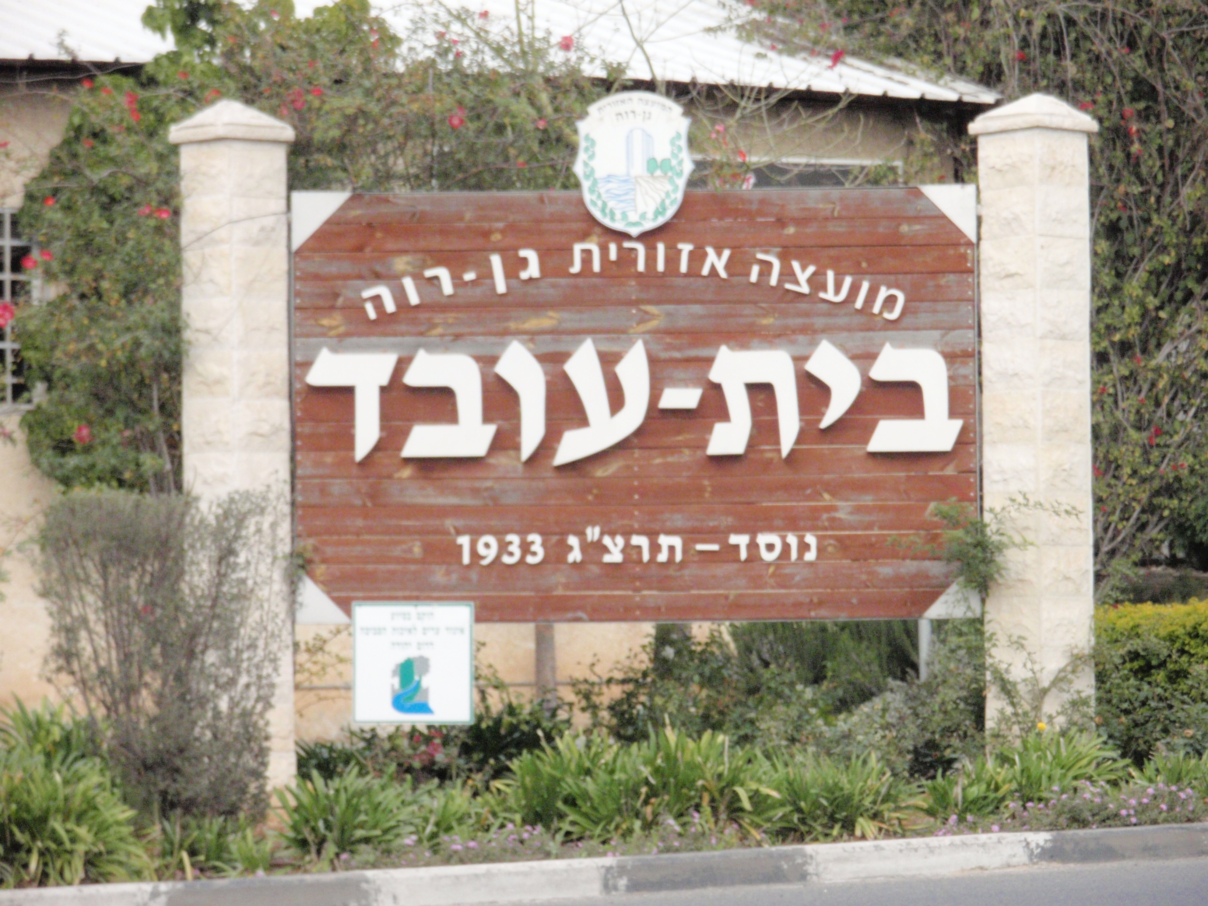 Entrance to Moshav Beit Oved